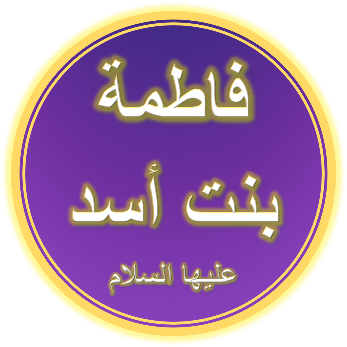 Arabic text with the name of Fatimah bint Asad